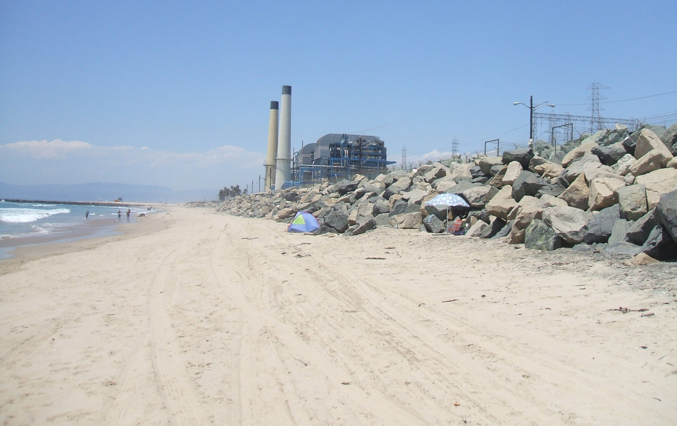 El Porto State Beach, looking northward